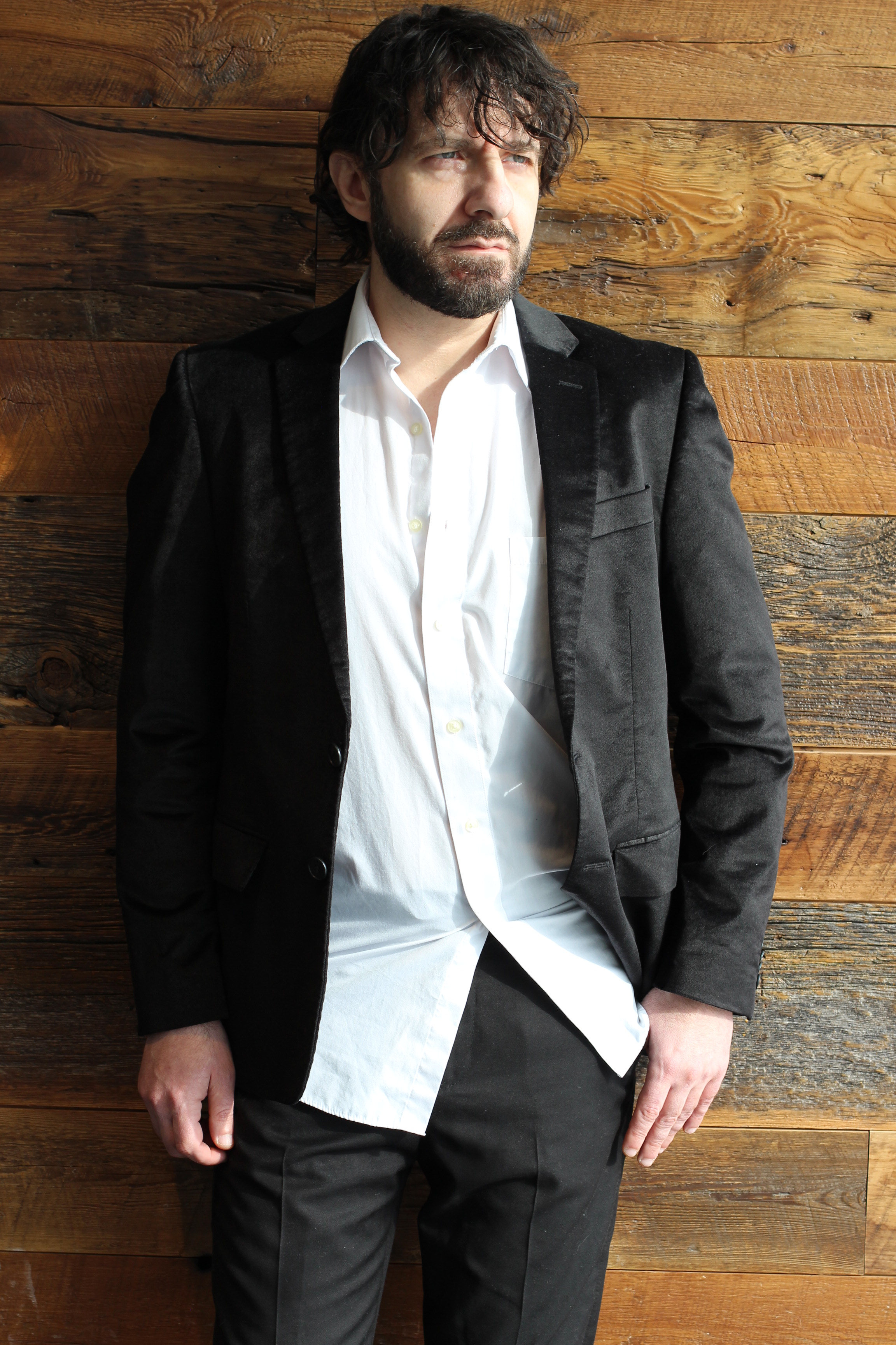 Serouj Kradjian at a photoshoot